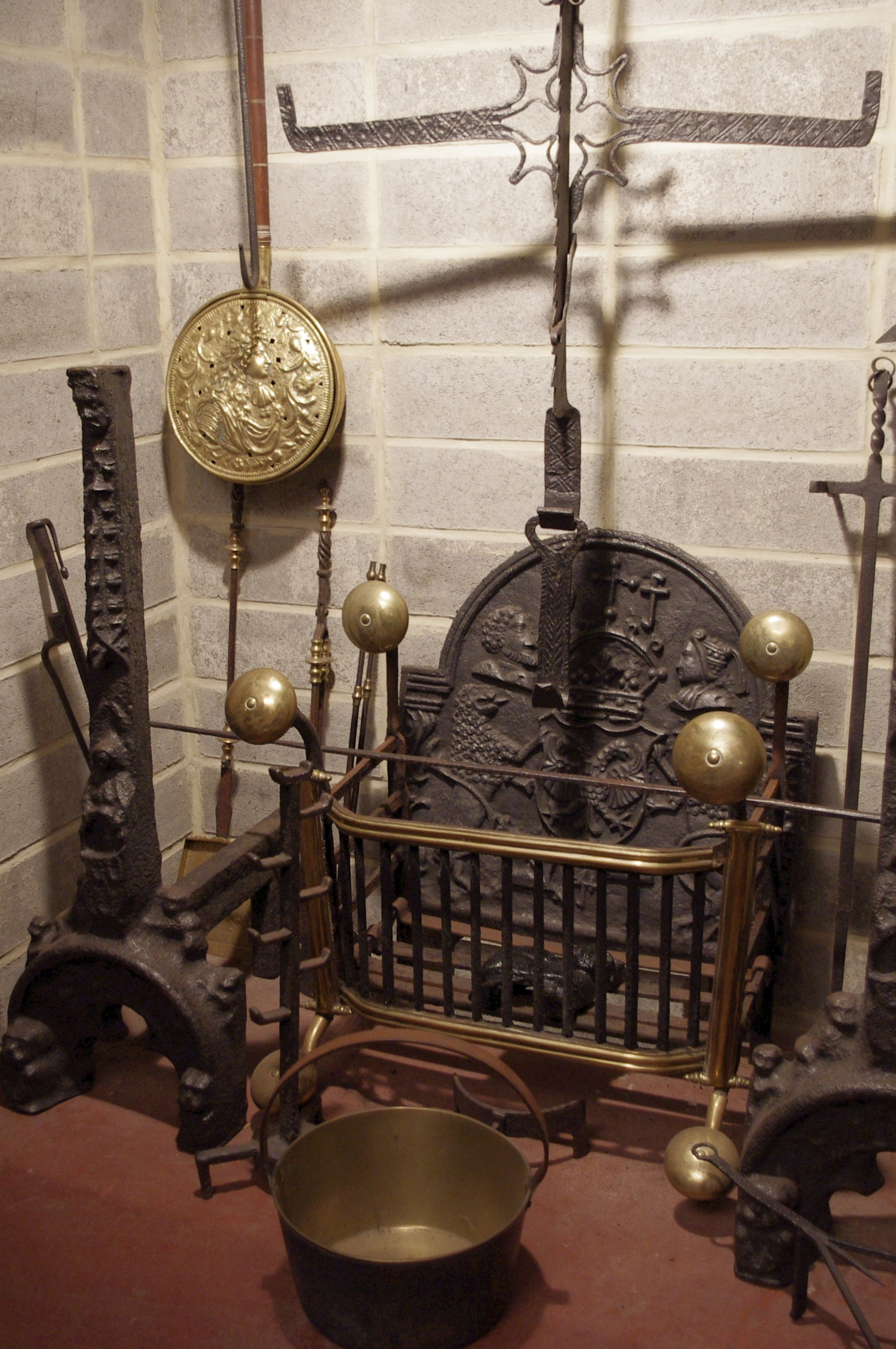 Objects used in fireplaces and a bed warmer (end of 17th beginning 18th century, in the Musée de la Gourmandise, Hermalle-sous-Huy, Belgium